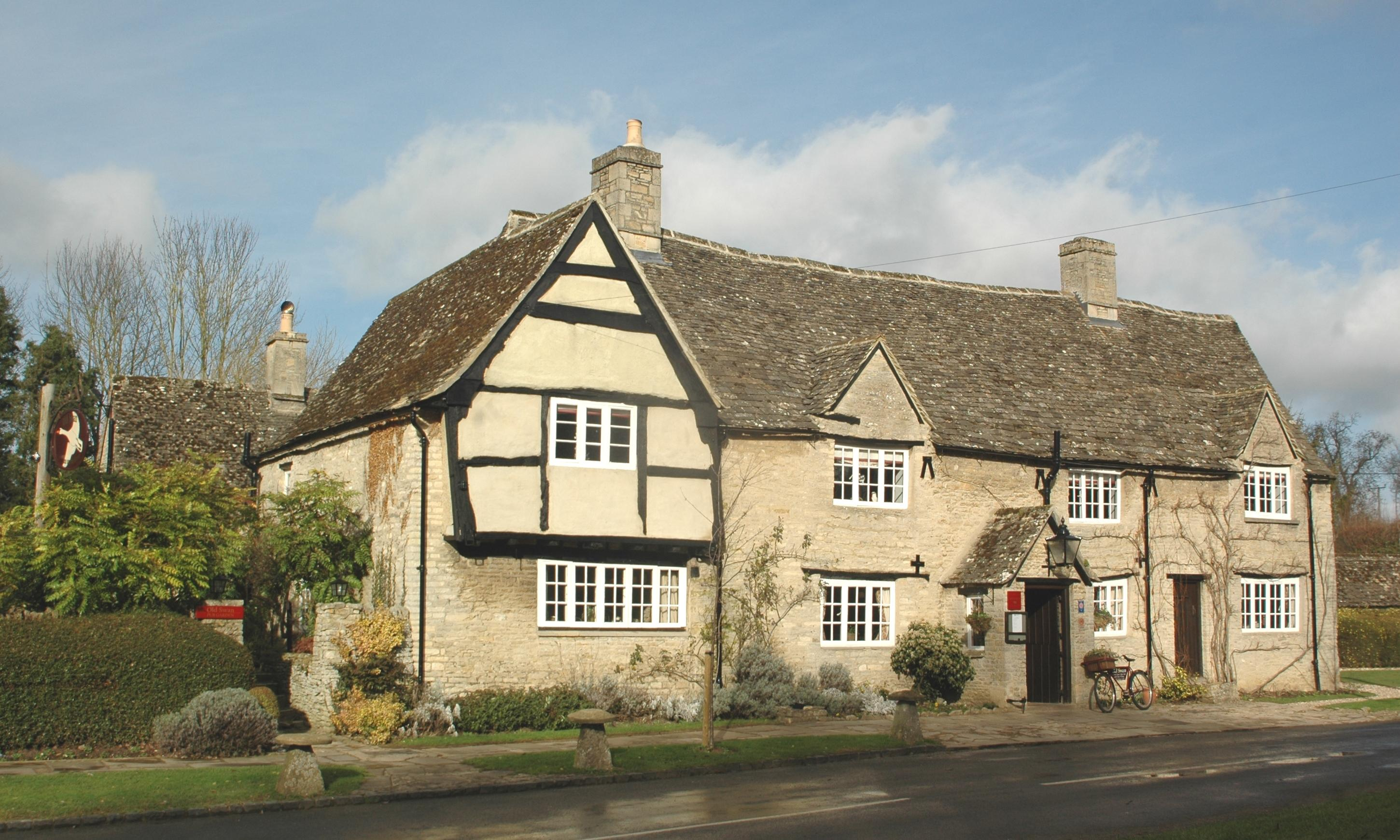 The Old Swan public house, Minster Lovell, Oxfordshire